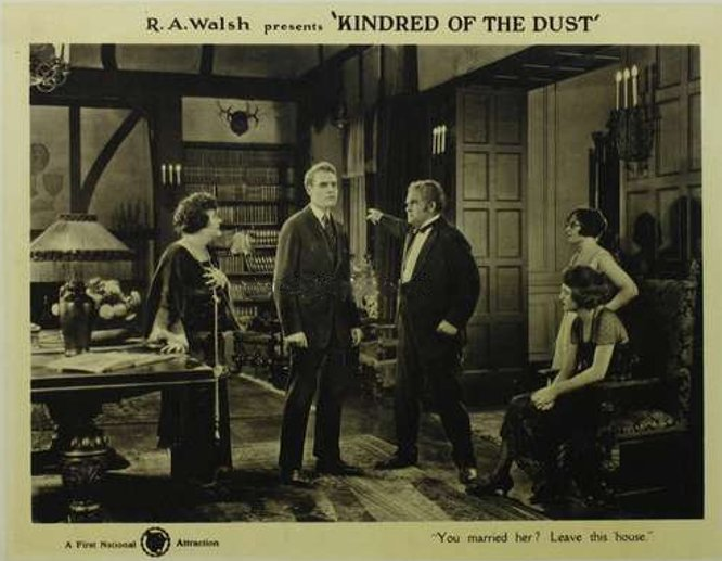 Kindred of the Dust (1922) is an American silent film directed by Raoul Walsh, and starring his wife Miriam Cooper. This is a poster.